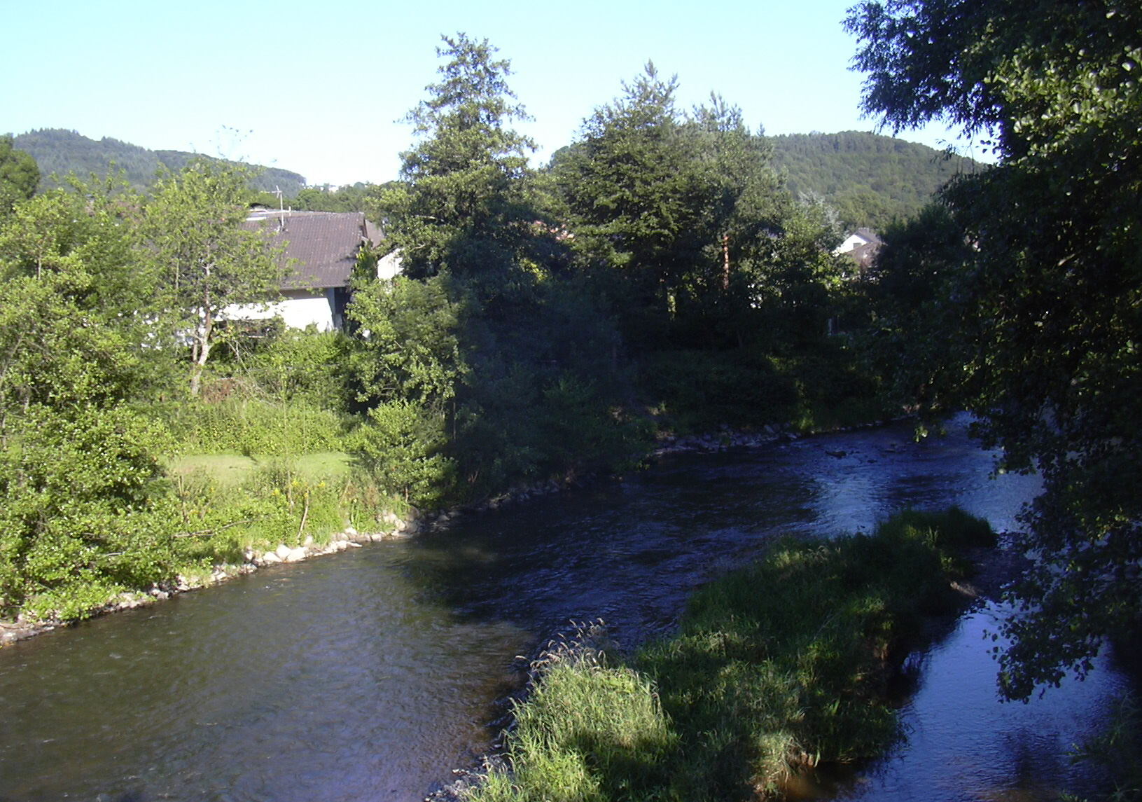 Fockenbach mouth, Wied, Niederbreitbach, Westerwald/Germany